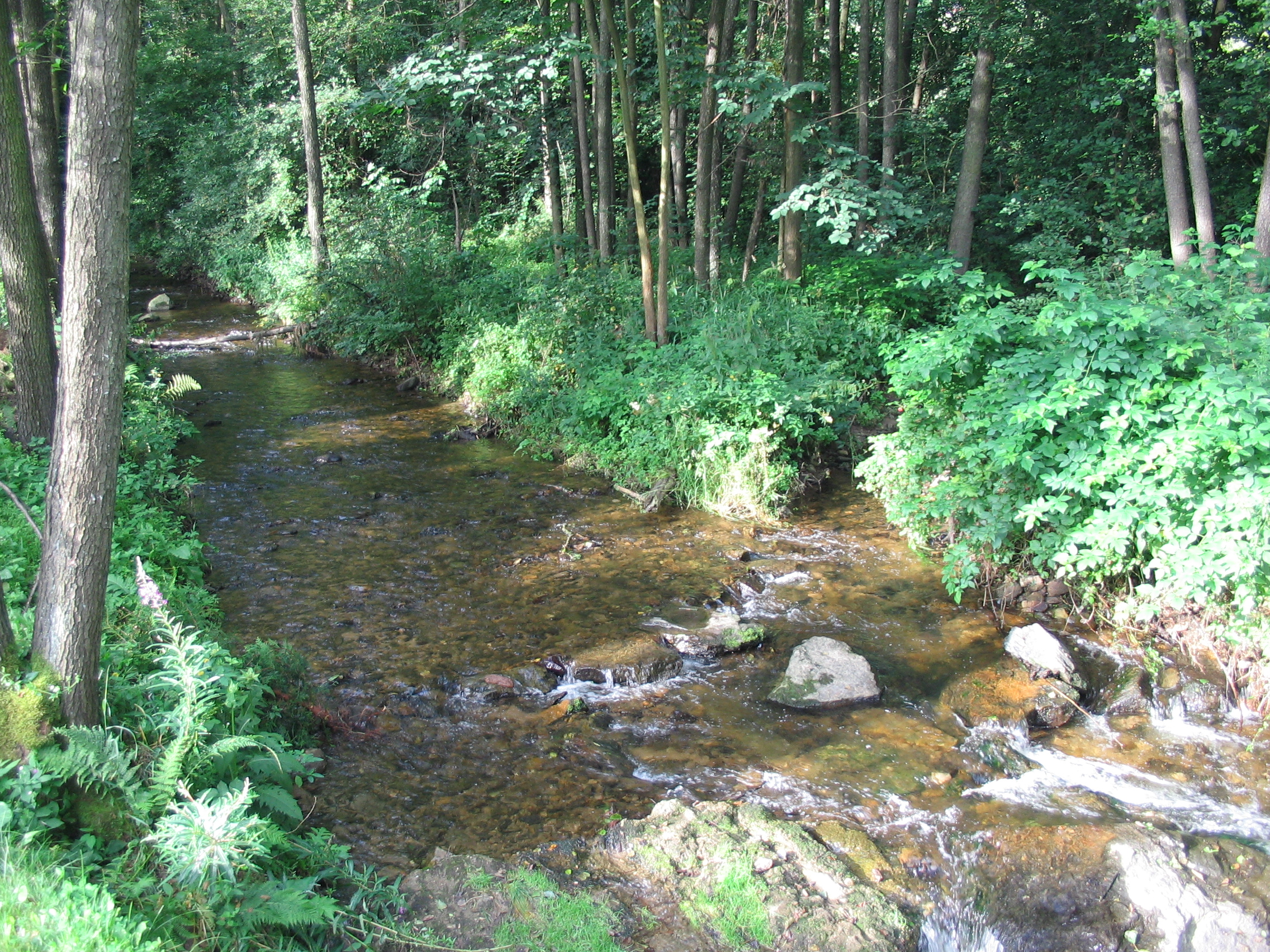 Novosedelský potok near Zvotoky (Strakonice District)